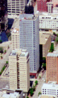 A small image of the Landmark Tower in Fort Worth in 2000, prior to its implosion.